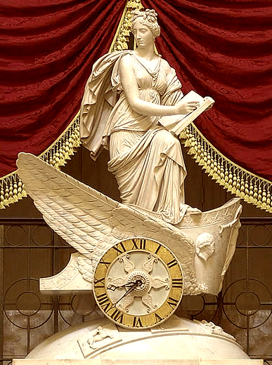 Carlo Franzoni's 1819 sculptural figure of Clio the muse of hisotry in a winged chariot recording history, is colloquially titled the "Car of History." Located in National Statuary Hall, the old house chamber of the U.S. Capitol.